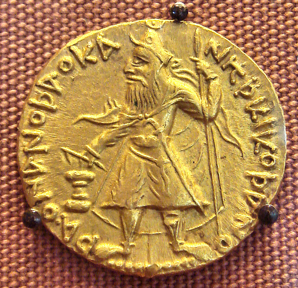 Gold coin of Kanishka. British Museum. Personal photograph 2005.